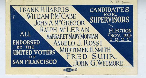 Reverse side of a Margaret Mary Morgan political campaign card, 1921, meant to promote her candidacy for Supervisor for the San Francisco Board of Supervisors